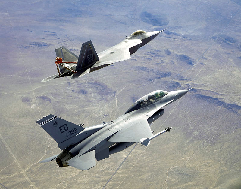 EDWARDS AIR FORCE BASE, Calif. -- An F-22 Raptor is shadowed by an F-16 Fighting Falcon chase plane. The F-22 combines stealth, supercruise, maneuverability and many other features enabling a first look, first shot, first kill capability that will provide continued air dominance for generations to come.